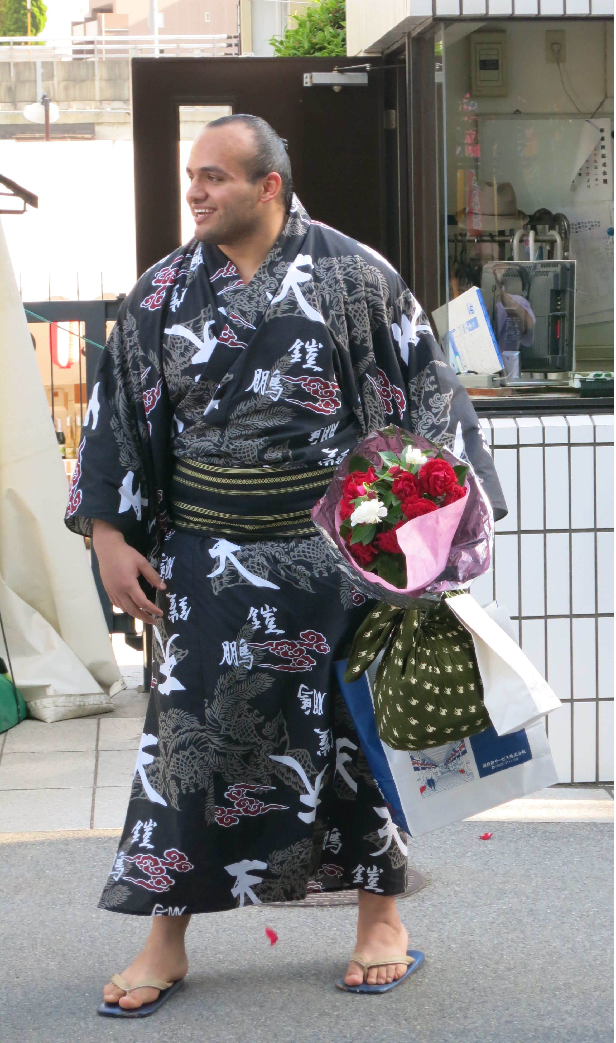 Osunaarashi Kintaro after May grand Tournament Tokyo, Ryogoku Kokugikan